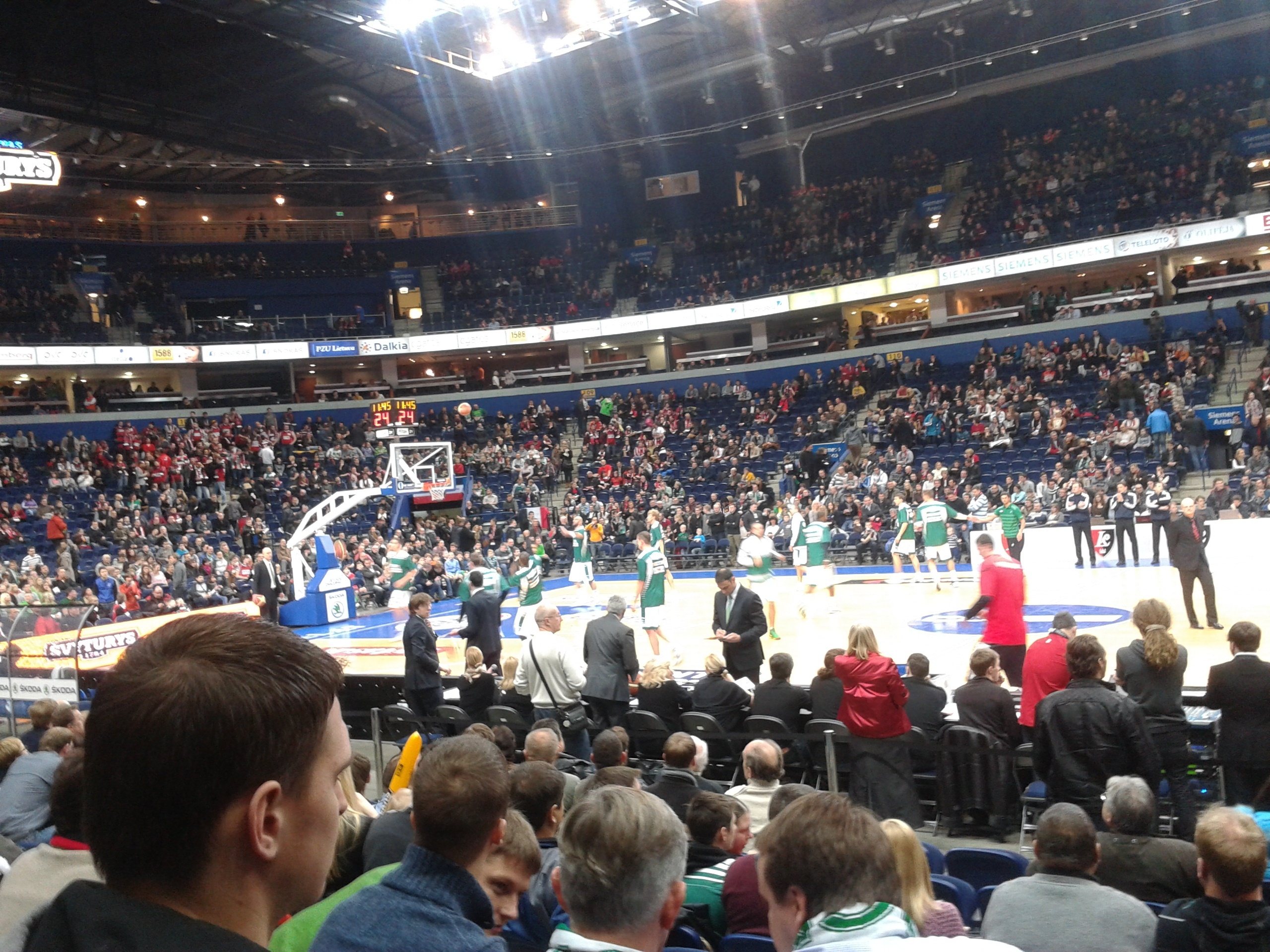 Žalgiris warming-up before the LKL game against Lietuvos Rytas in Siemens Arena.